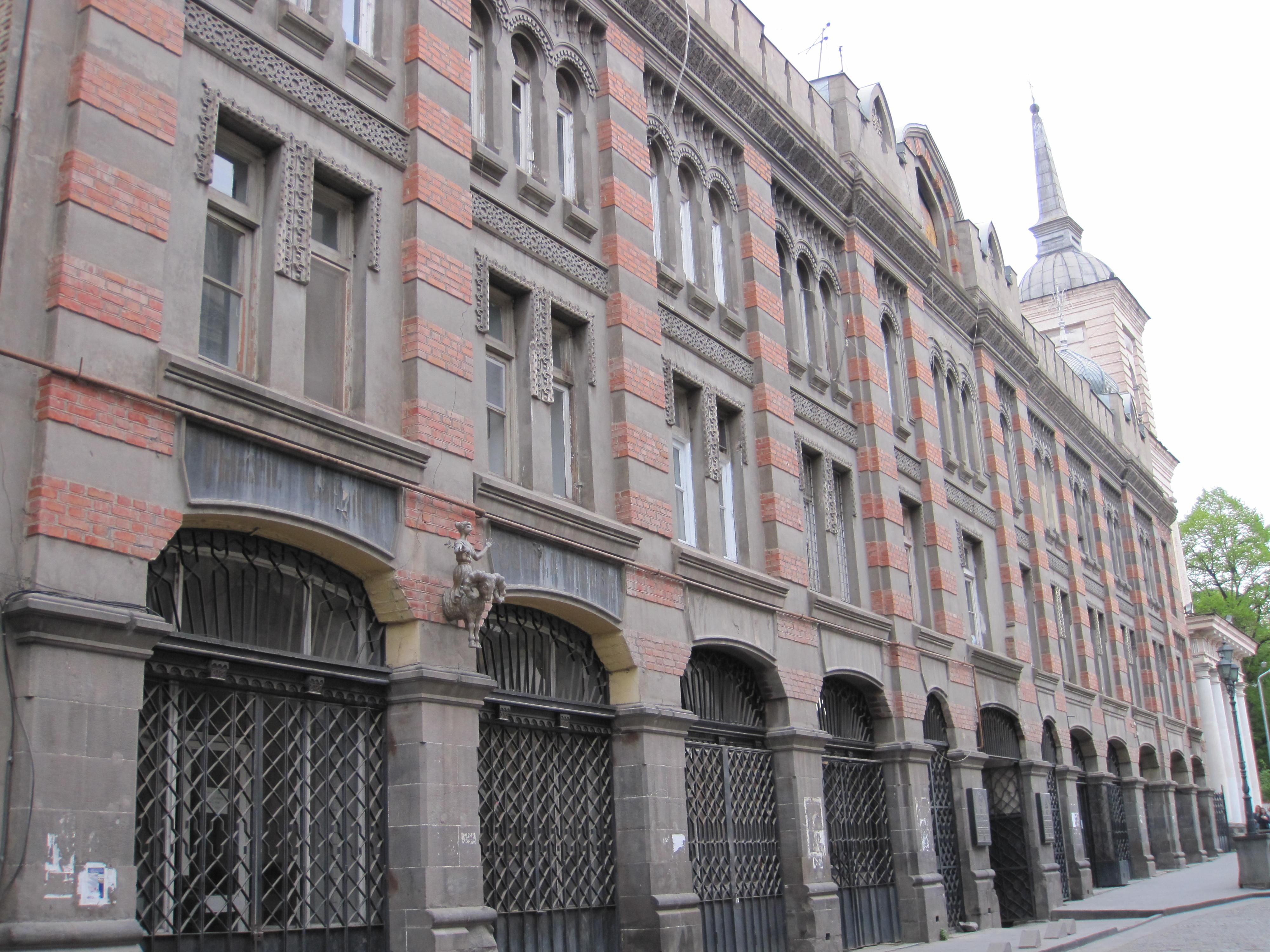 Old Tbilisi, historical part of Tbilisi, Georgia.